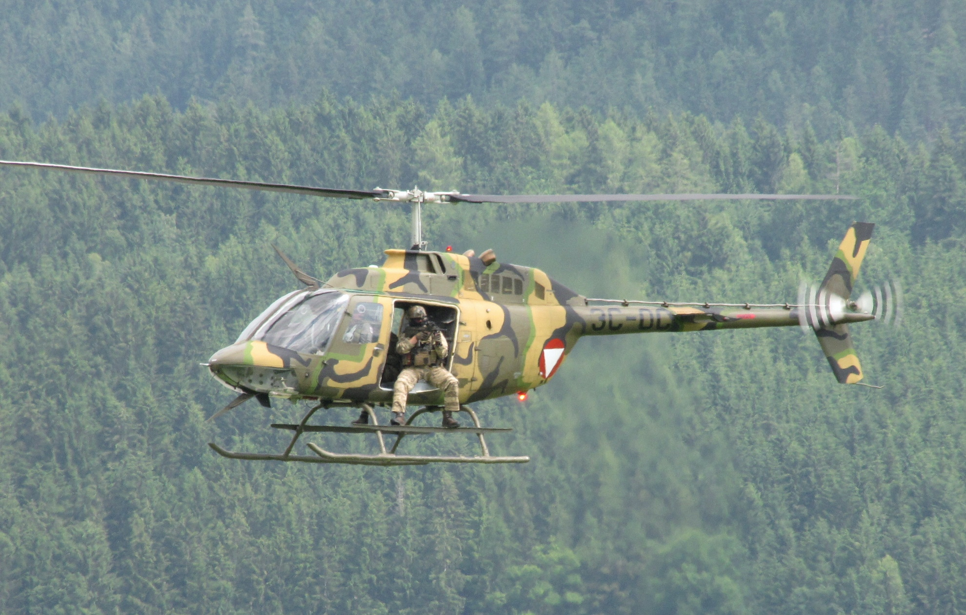 Austrian OH-58 Kiowa and Jagdkommando soldiers at the Airpower 2013.